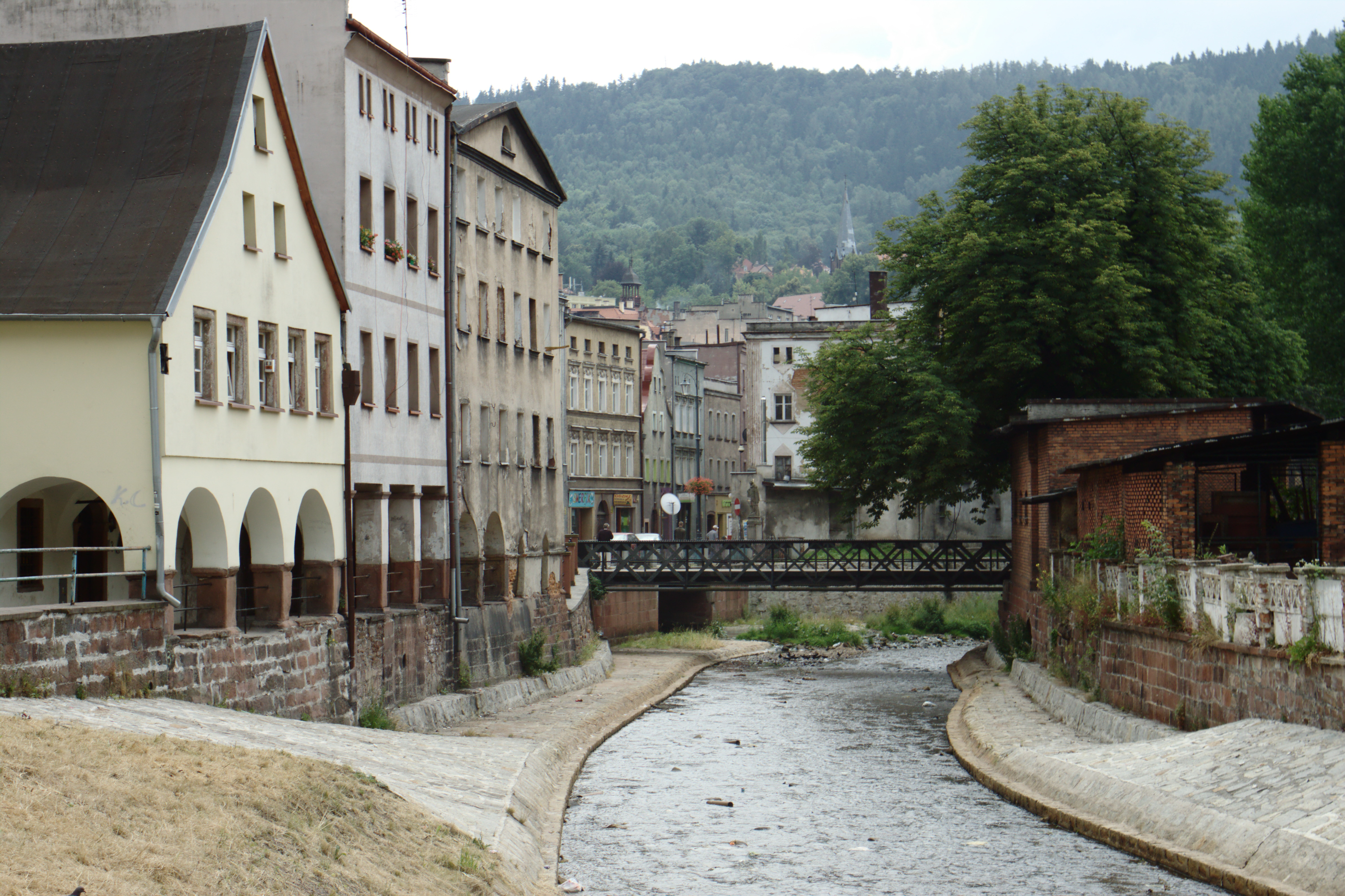 The river in the town of Nowa Ruda, Poland